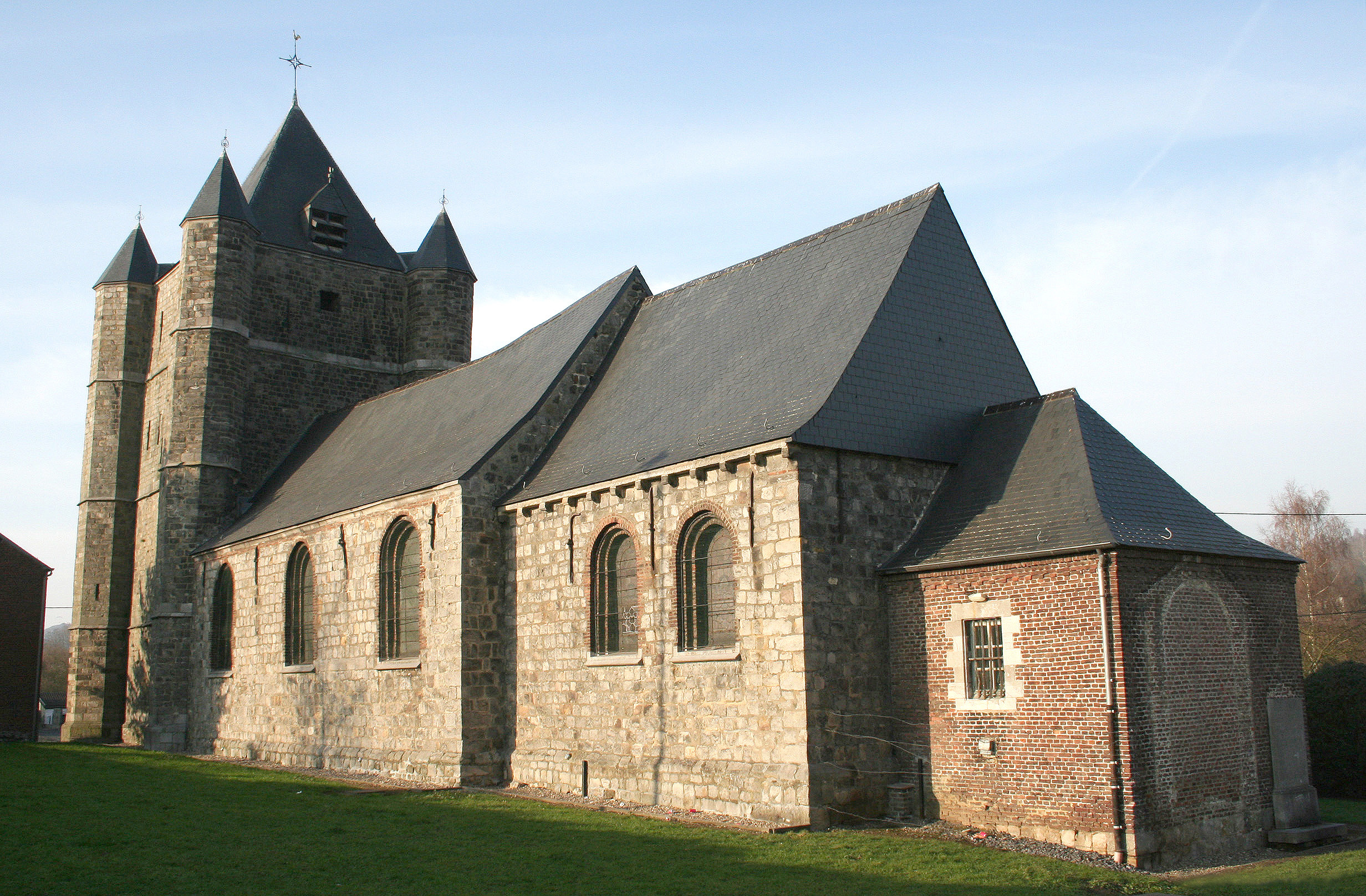 Saint-Vaast (Belgium), the St. Vaast Church (XIII-XVIIIth centuries).